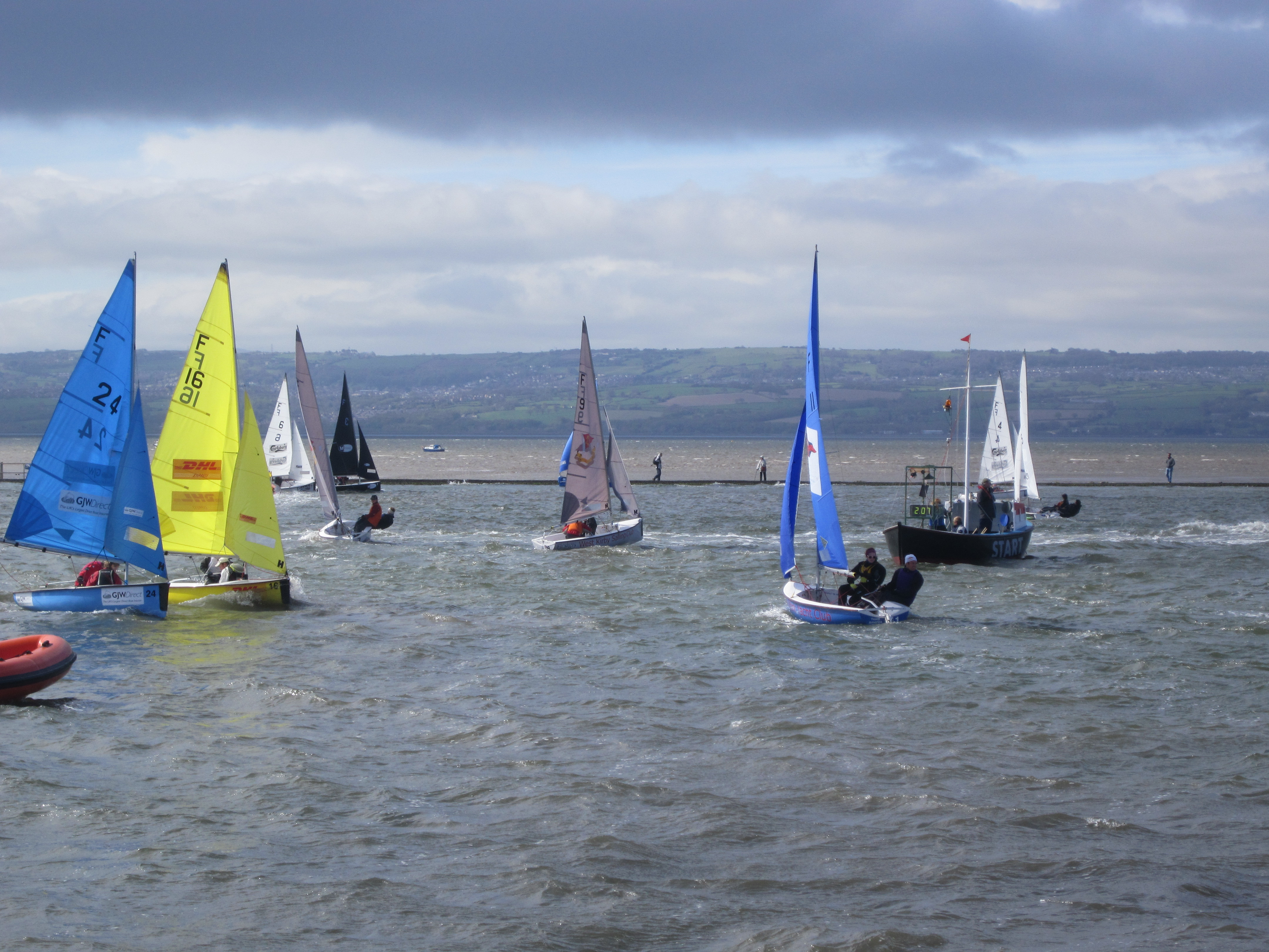 Photo taken at the Wilson Trophy 2013, West Kirby Marine Lake, Wirral, Merseyside, England.